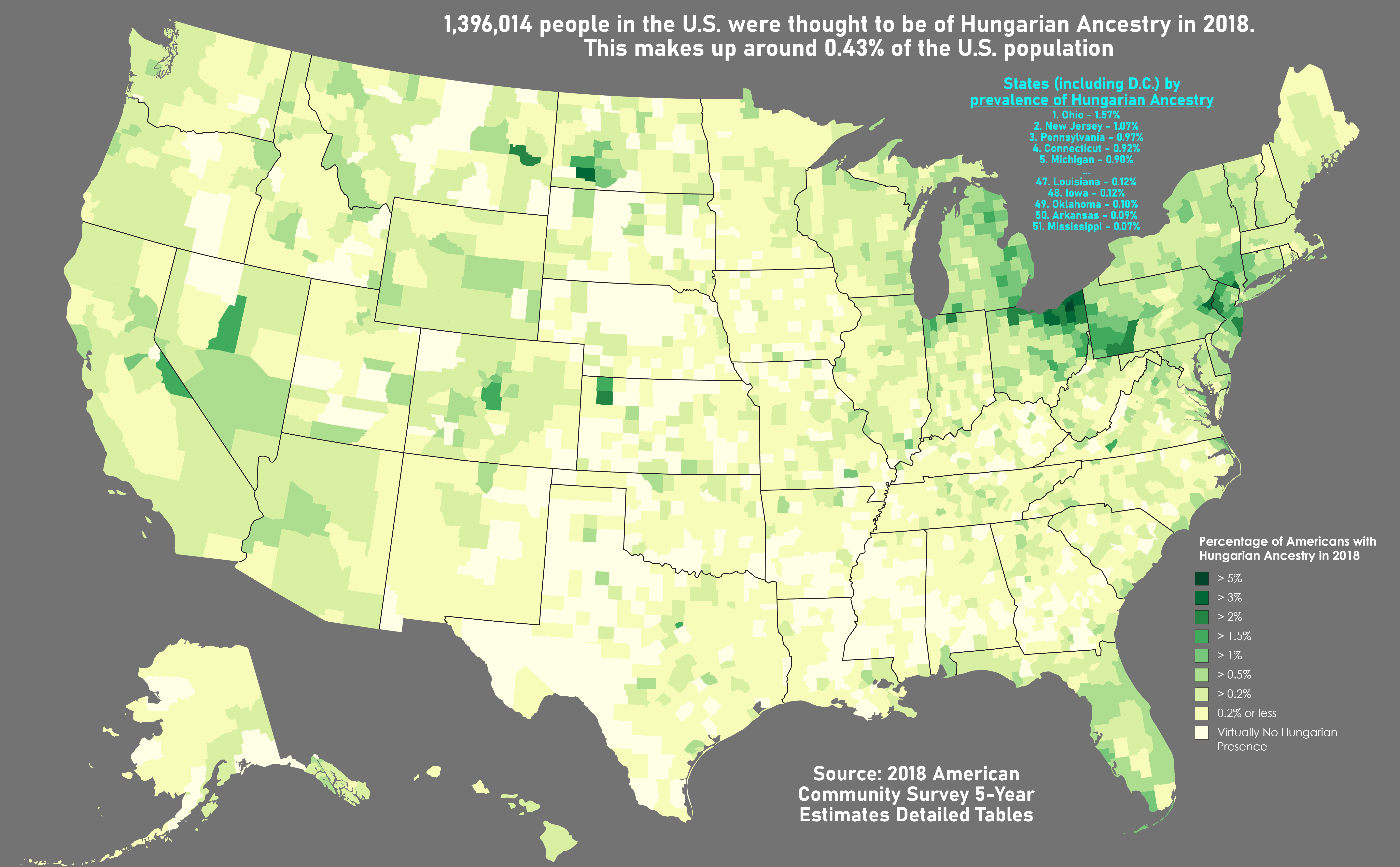 This is a map showing counties in the U.S.A. by the percentage of Americans they have claiming Hungarian Ancestry in 2018 according to the ACS's 5-year Estimates.